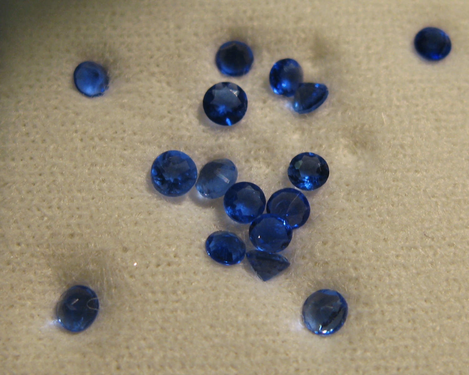 Haüyne, several faceted Stones ca. 1-2 mm large